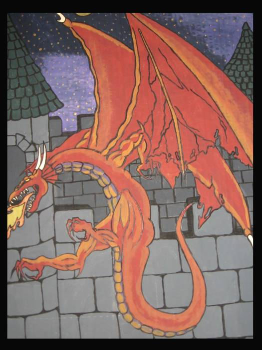 dragon